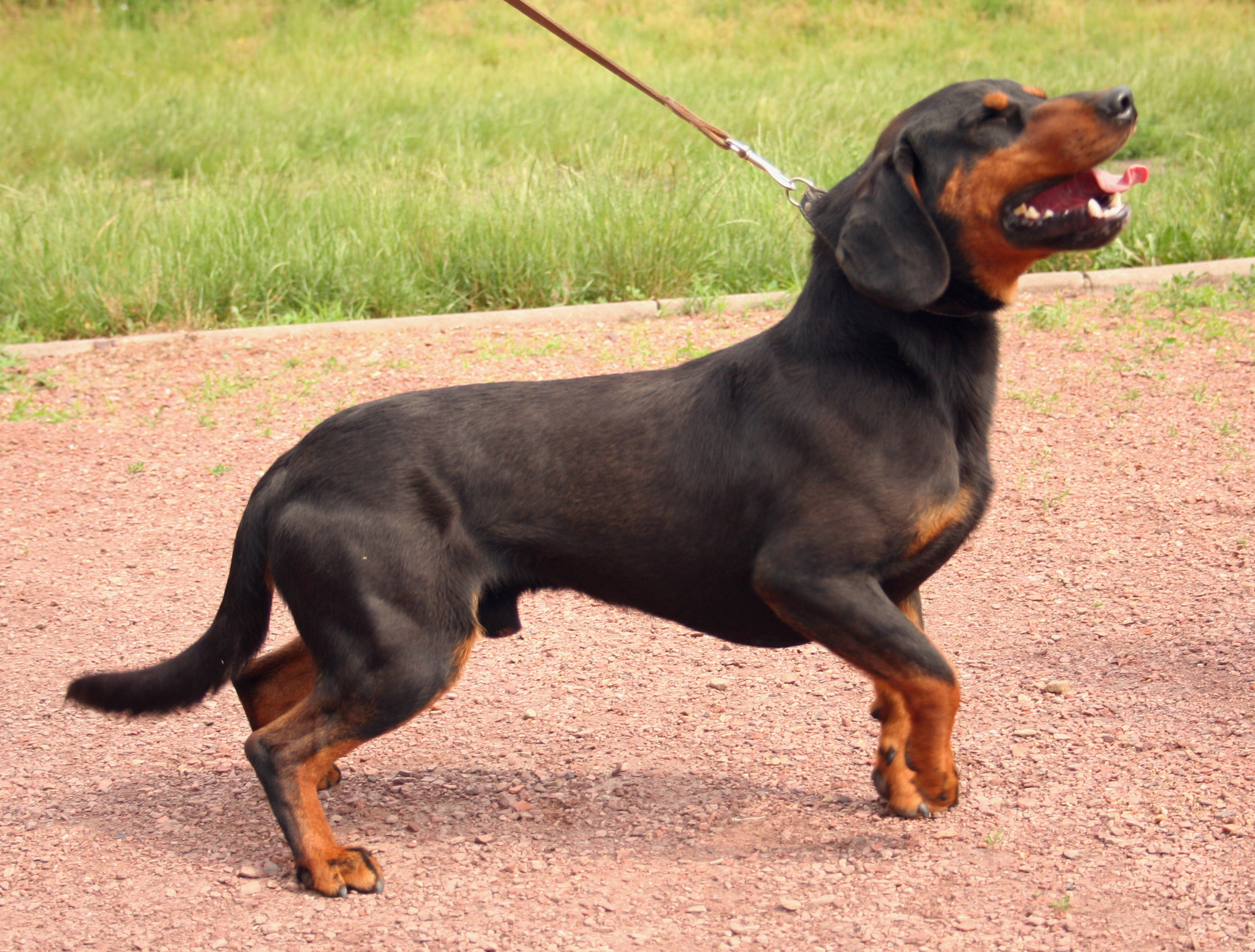 Slovakian Hound during dog's show in Racibórz,Poland